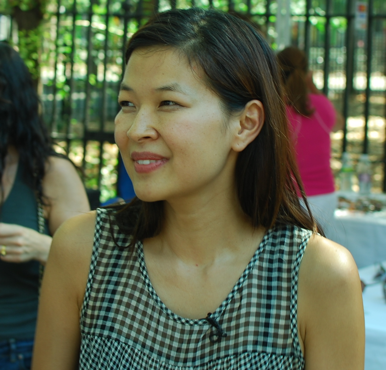 suchin pak: hester street fair is "homemade, homegrown, hyperlocal shopping"